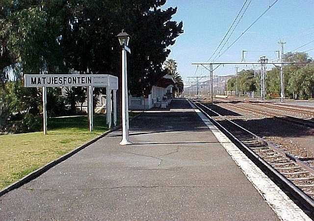 Matjiesfontein station, Western Cape, looking north